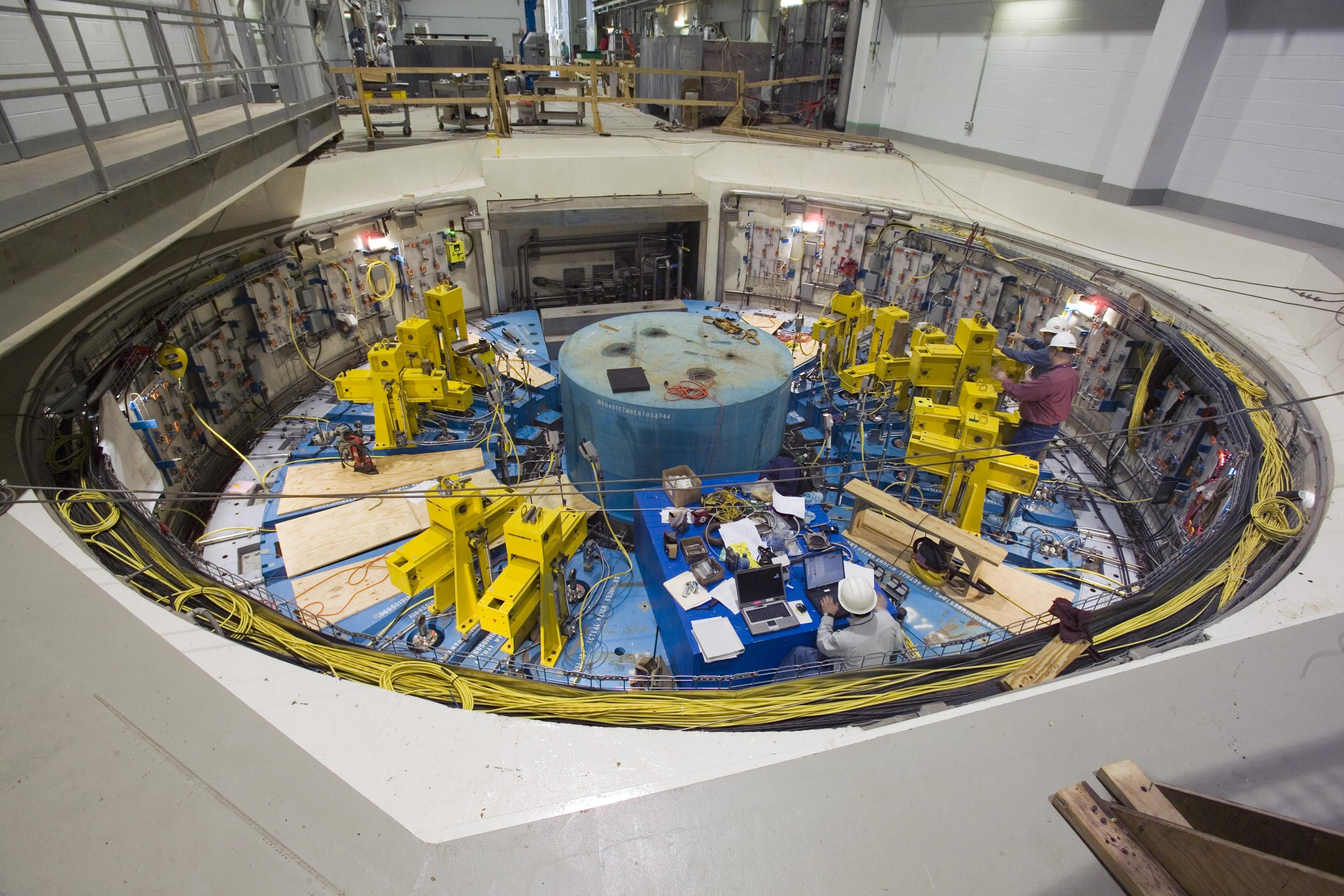 CONSTRUCTION PROGRESS OF THE TARGET AT THE SPALLATION NEUTRON SOURCE(SNS). THE SPALLATION NEUTRON SOURCE (SNS) IS AN ACCELERATOR BASED NEUTRON SOURCE BEING BUILT IN OAK RIDGE, TENNESSE BY THE DEPARTMENT OF ENERGY. SCHEDULED FOR COMPLETION IN 2006, THE SNS WILL PROVIDE THE MOST INTENSE PULSED POWER NEUTRON BEAMS IN THE WORLD FOR SCIENTIFIC RESEARCH AND INDUSTRIAL DEVELOPMENT. For more information or additional images, please contact 202-586-5251.